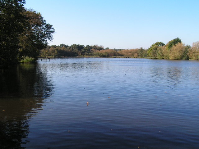 Furnace pond in Kent. The pond forms the parish boundary between Horsmonden, and Brenchley and Matfield civil parishes.